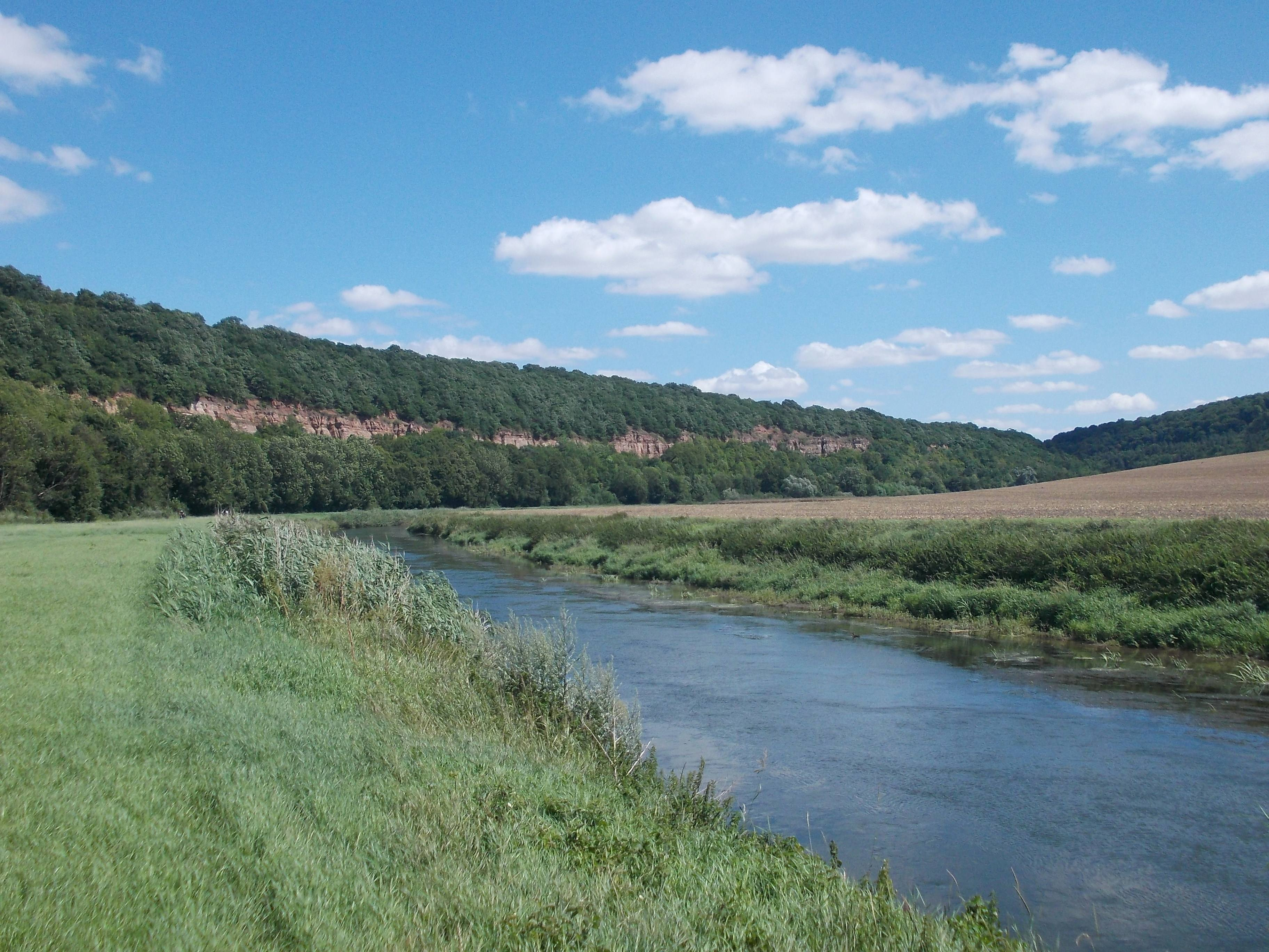 Unstrut valley between Memleben and Wangen (district: Burgenlandkreis, Saxony-anhalt), with the rocks of the Steinklöbe nature reserve